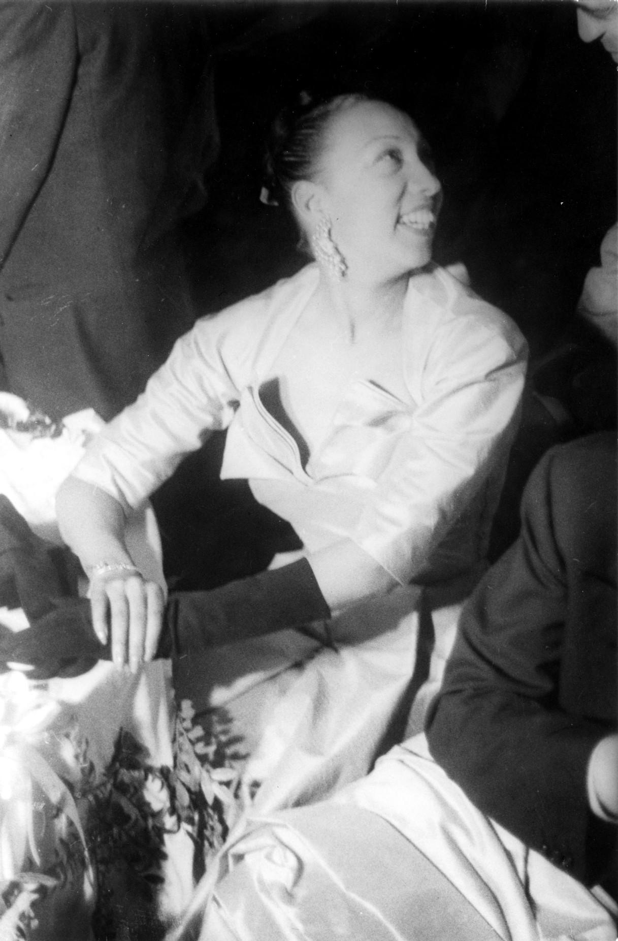 Josephine Baker photographed by Carl Van Vechten Portrait of Josephine Baker, May 20, 1951